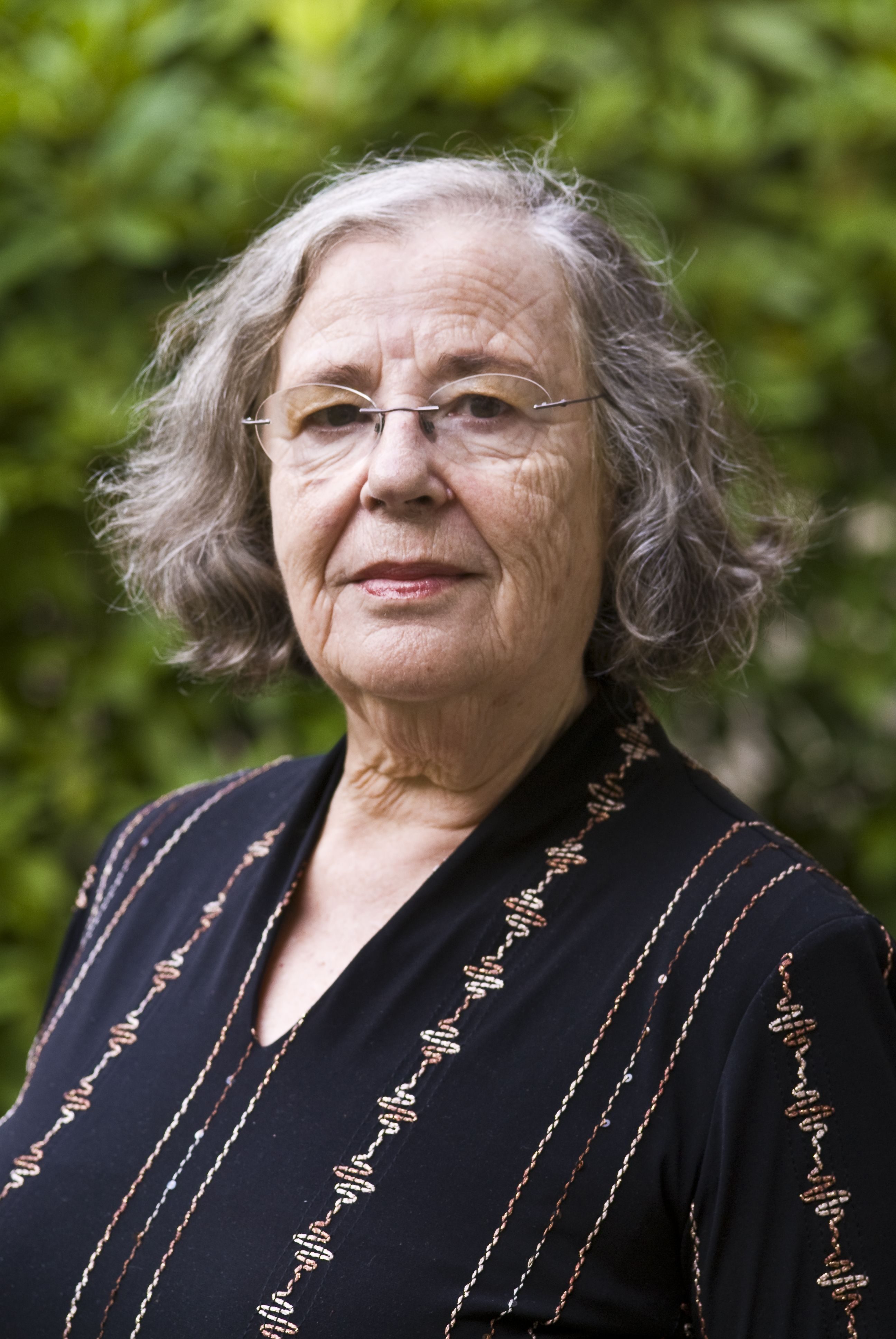 Photograph of Helena Villar